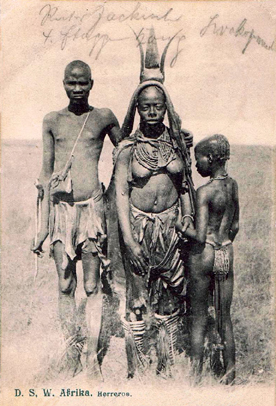 Herero in traditional dress at the end of the 19th century